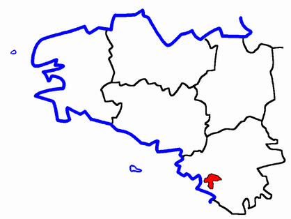 Description: Map for localisazion of cantons of Pays-de-Loire, region in France Source: made by Hervé Tigier in april 2005 from another large map (published in 1990)